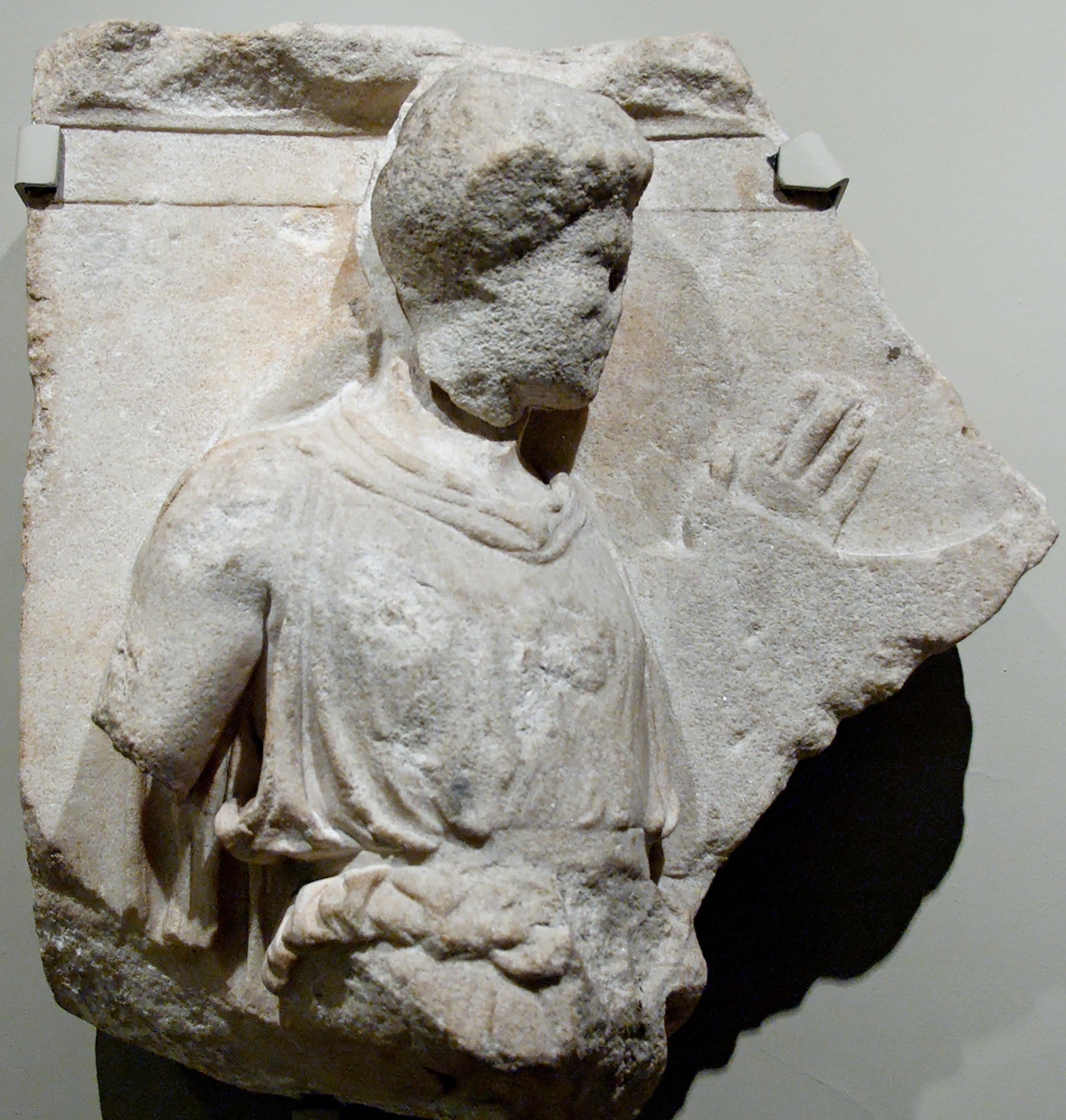 Male figure wearing a chiton and an alopekis (Thracian cap), holding a kithara by its strap in his left hand; may be identified as Apollo or Orpheus. Fragment of the north metope from the Temple of Apollo Epikourios at Bassae (Arcadia).